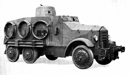 Type 91 Broad-gauge Railroad Tractor of the Imperial Japanese Army, with street wheels, about 1935